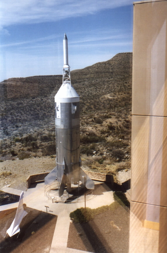 One of two surviving Little Joe IIs at the New Mexico Museum of Space History in Alamogordo, New Mexico, taken by User Willy Logan, March, 2002.